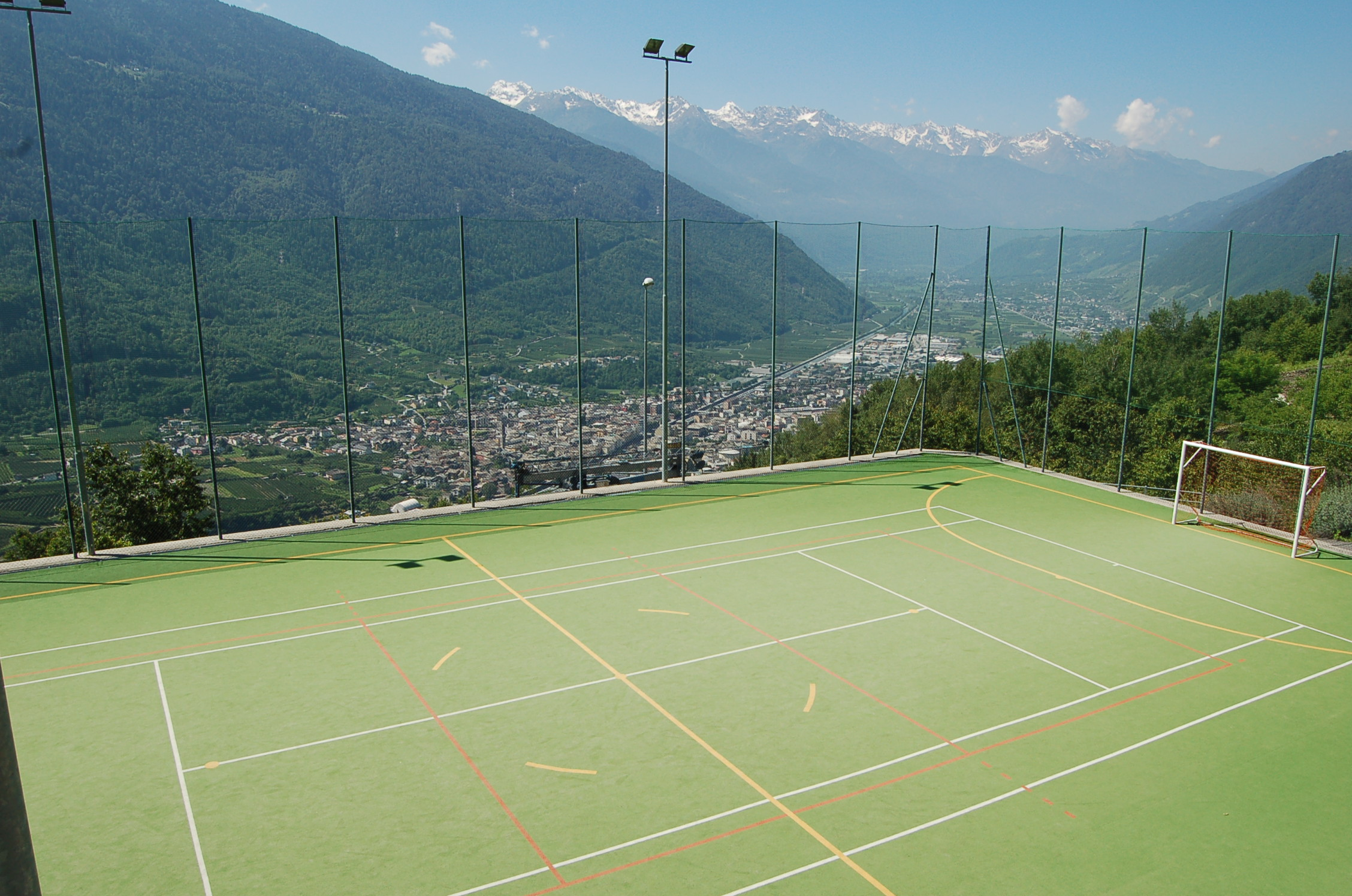 Campo sportivo di Baruffini Fraz. di Tirano Sondrio